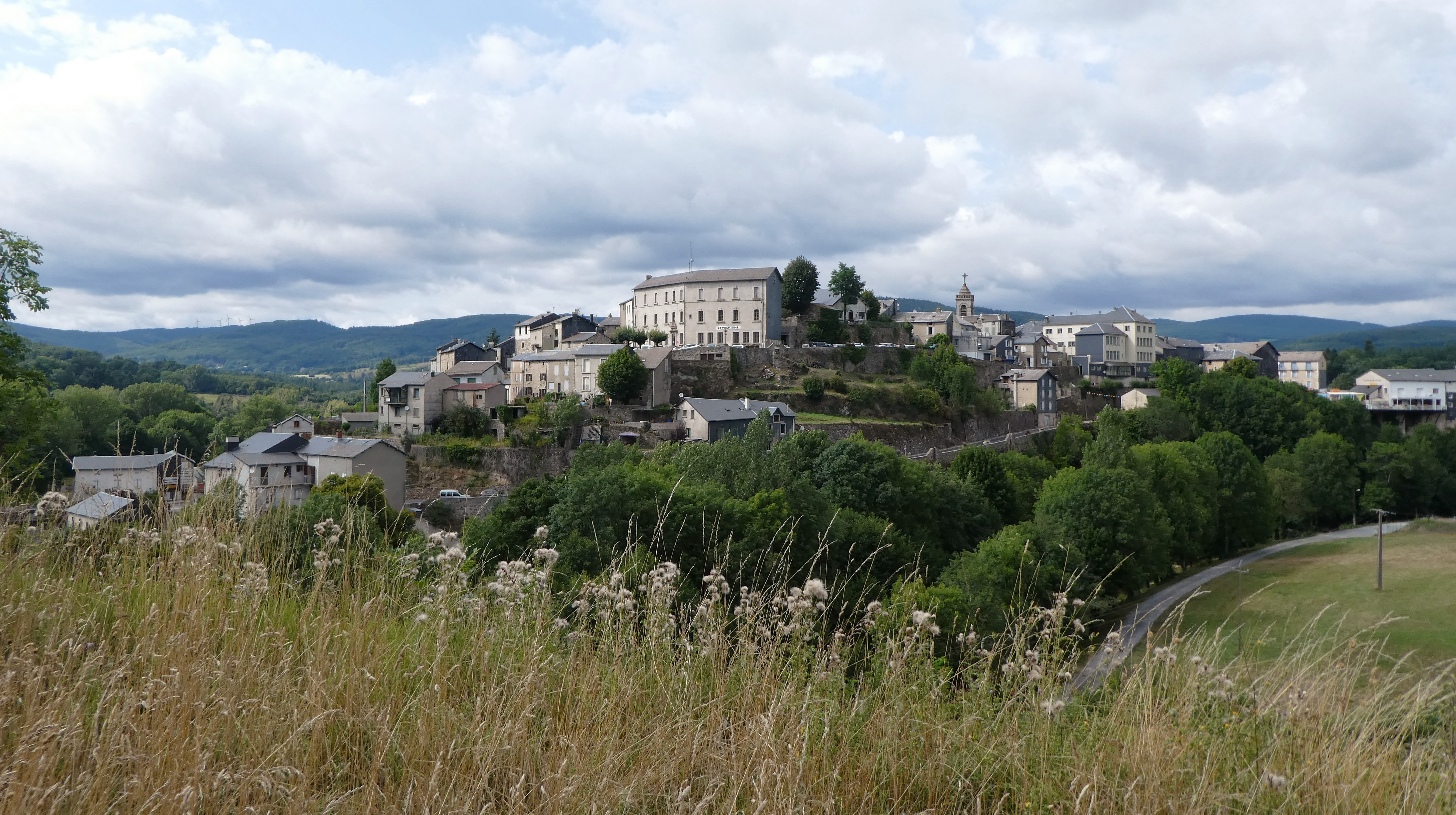 La Salvetat-sur-Agout